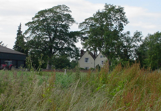 Kirby Hall, near Castle Hedingham Kirby Hall is best known as the home to the de Veres during the 16th century; they were cousins of the Earl of Oxford, of Hedingham Castle. Today the hall is a significant local farmhouse.